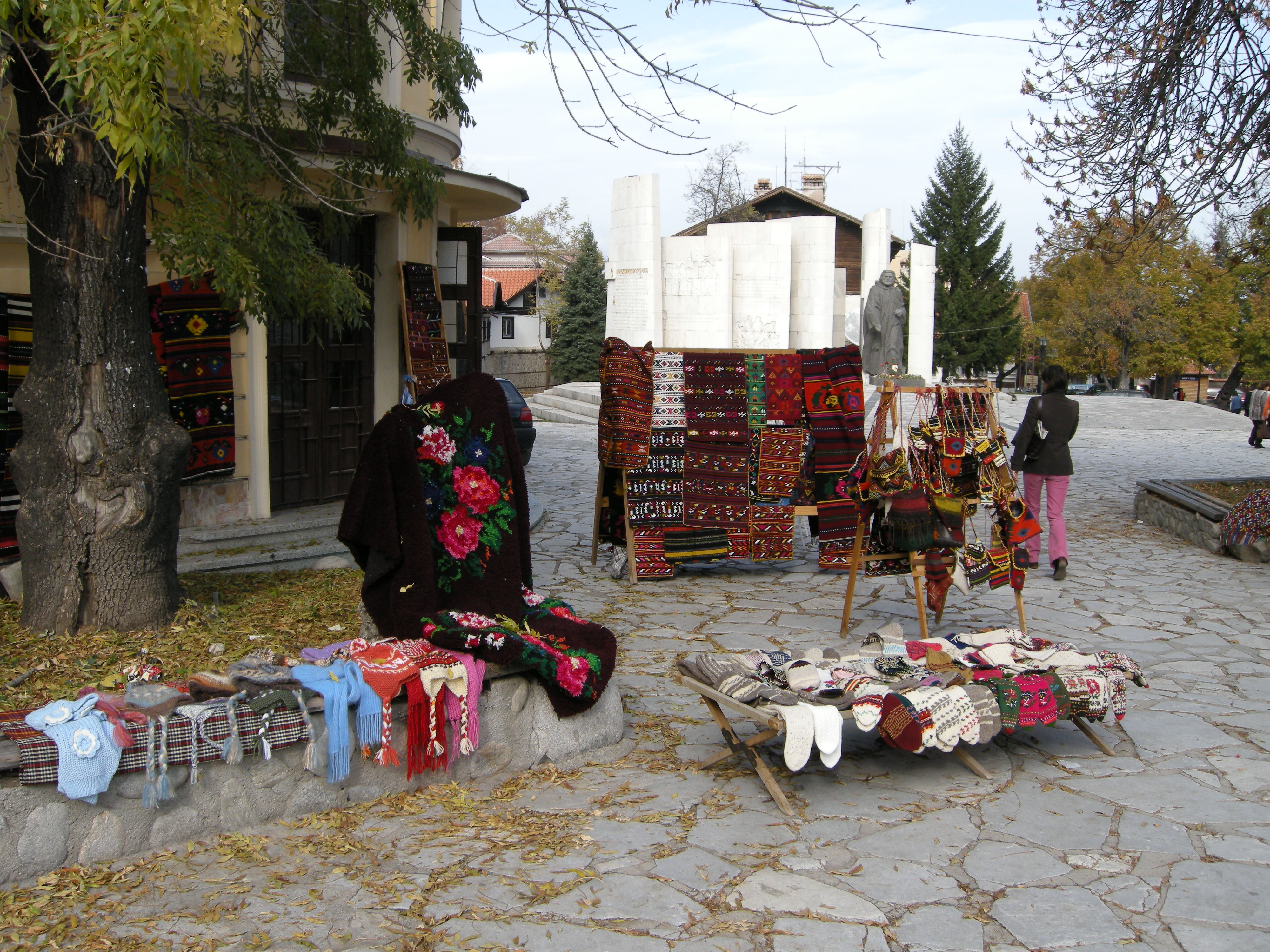 Traditional Bulgarian textile art handworks in Bansko.